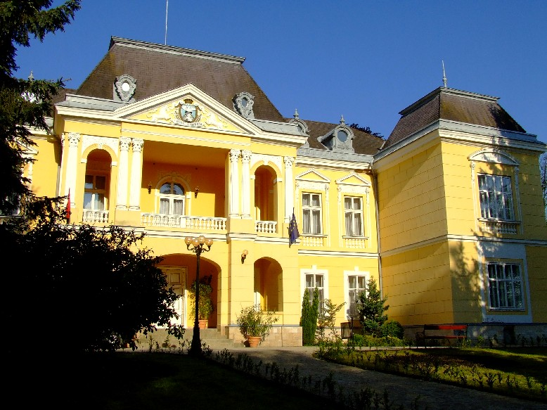 Battyhany-castle, Zalacsany. own work This is a photo of a monument in Hungary. Identifier: 11056